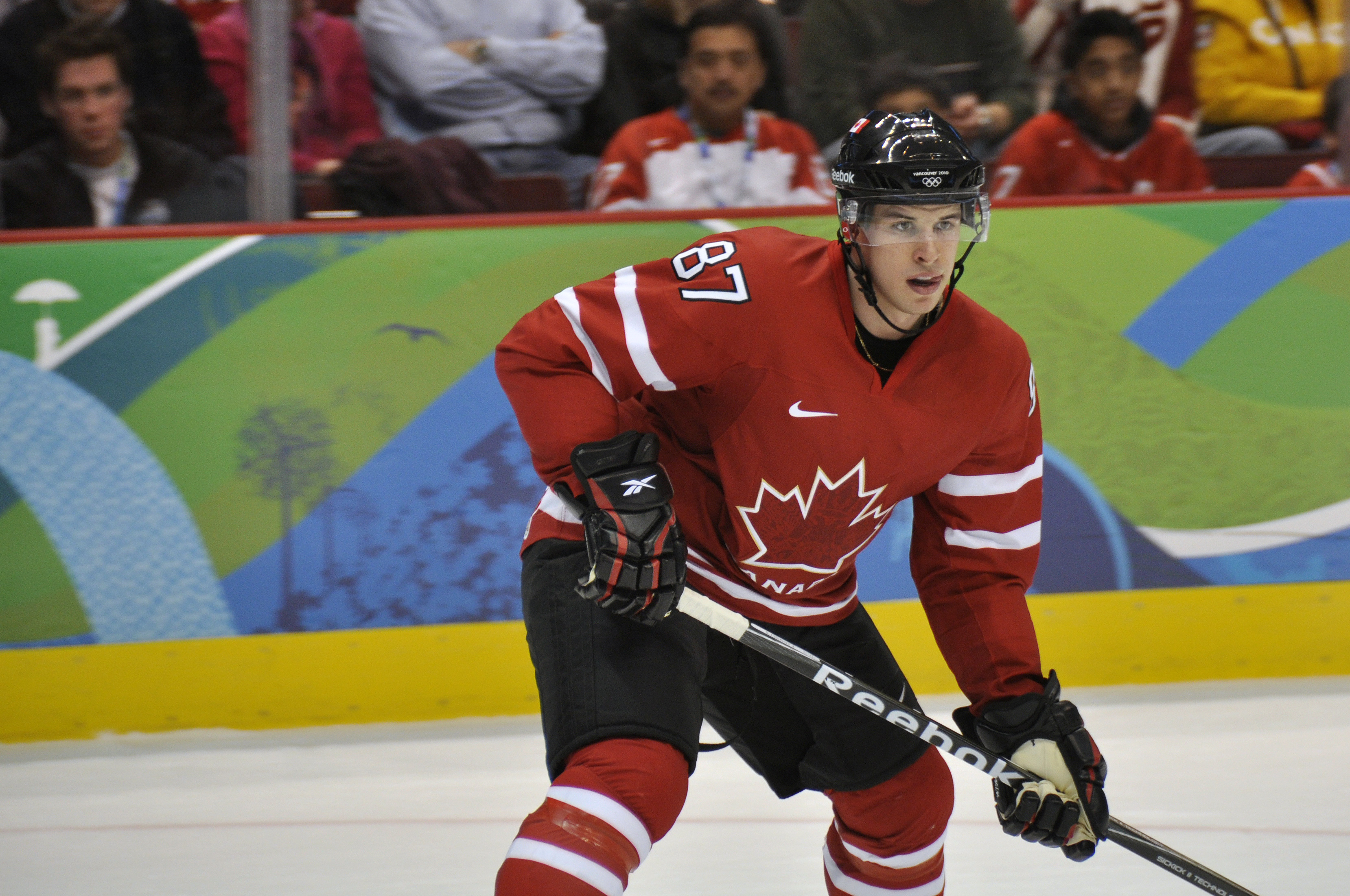 Sidney Crosby in action in the Team Canada game against Norway at the 2010 Winter Olympics